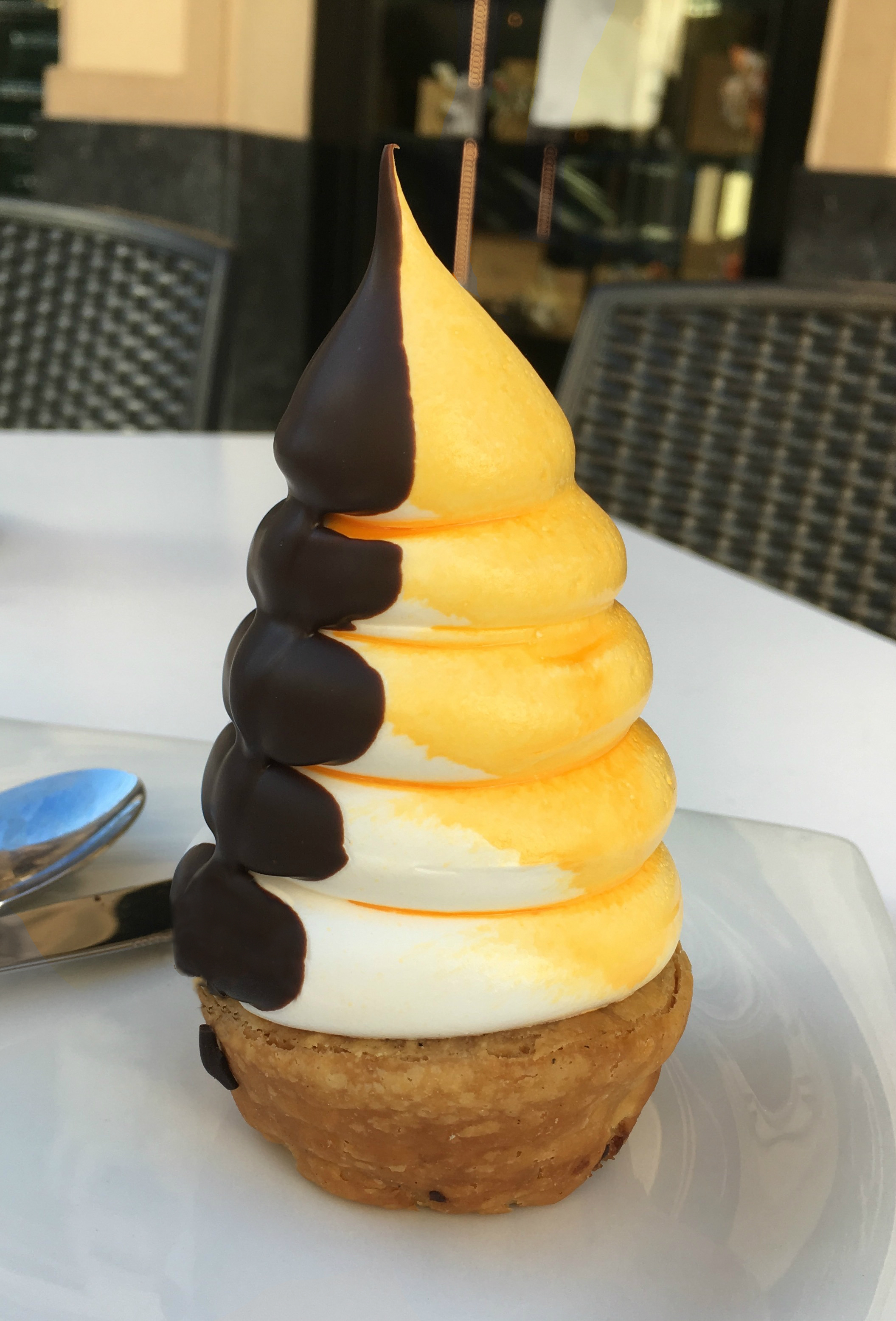 A carolina pastry from the bakery, "Pastelería Don Manuel," in Bilbao, Spain